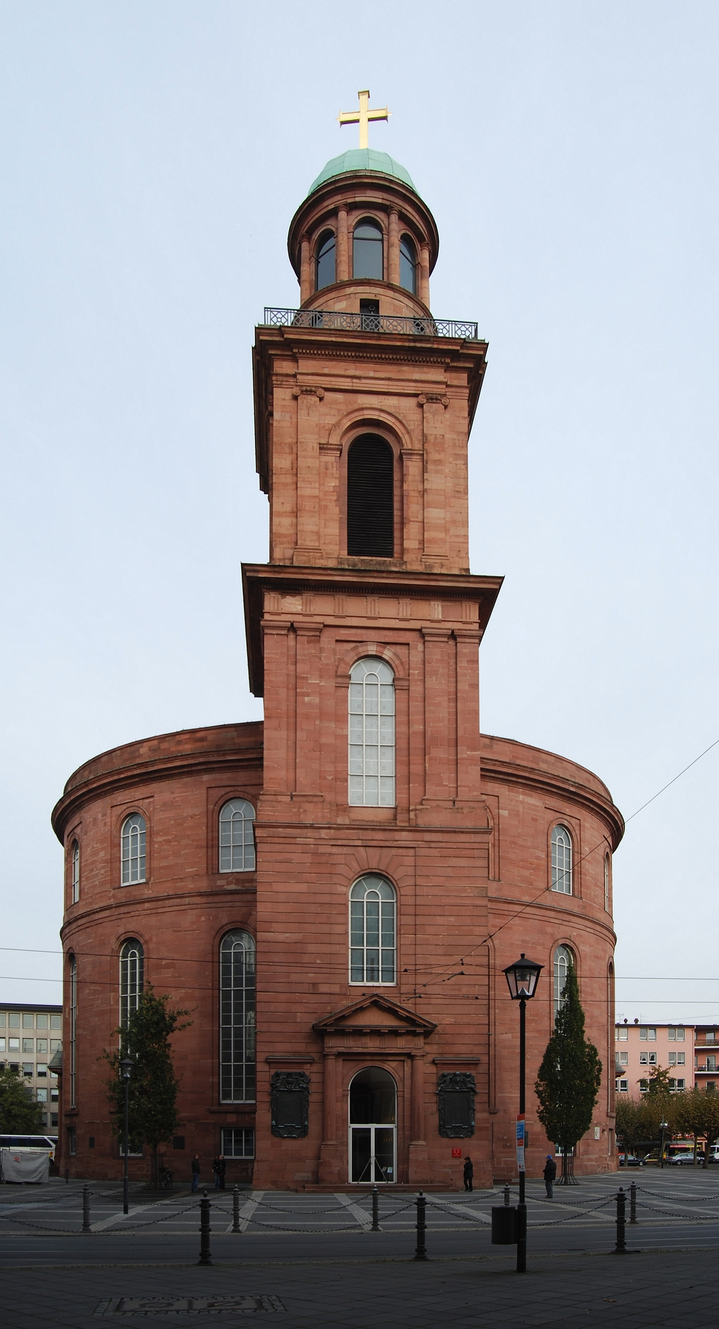 St. Paul's Church in Frankfurt am Main, Hesse.